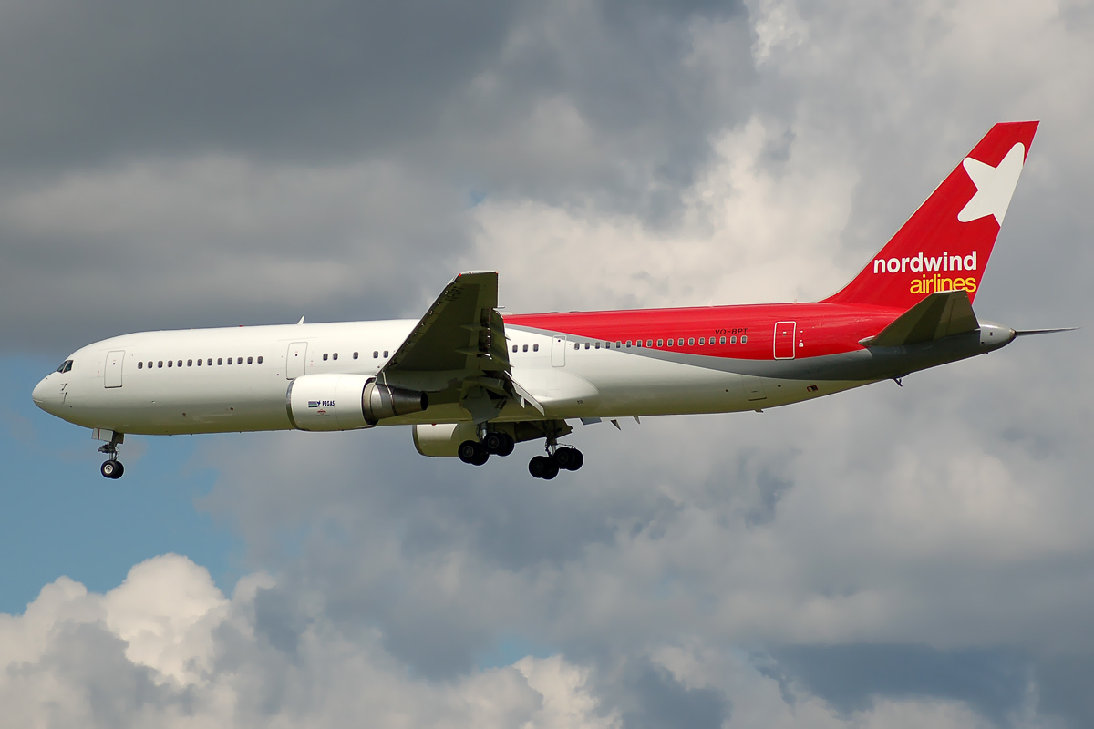 A Nordwind Airlines Boeing 767-306/ER at Sheremetyevo International Airport (SVO / UUEE)